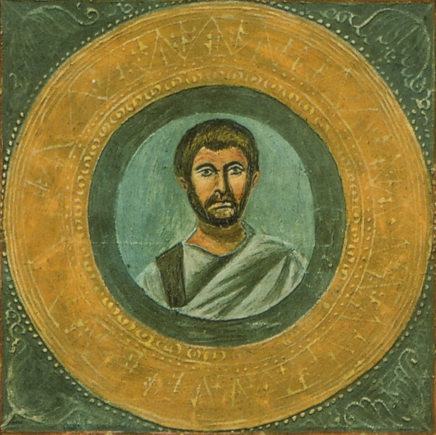 Portrait of Terence, cropped from File:Vaticana, Vat. lat. 3868 (2r).jpg